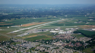 Lancaster Airport from Air